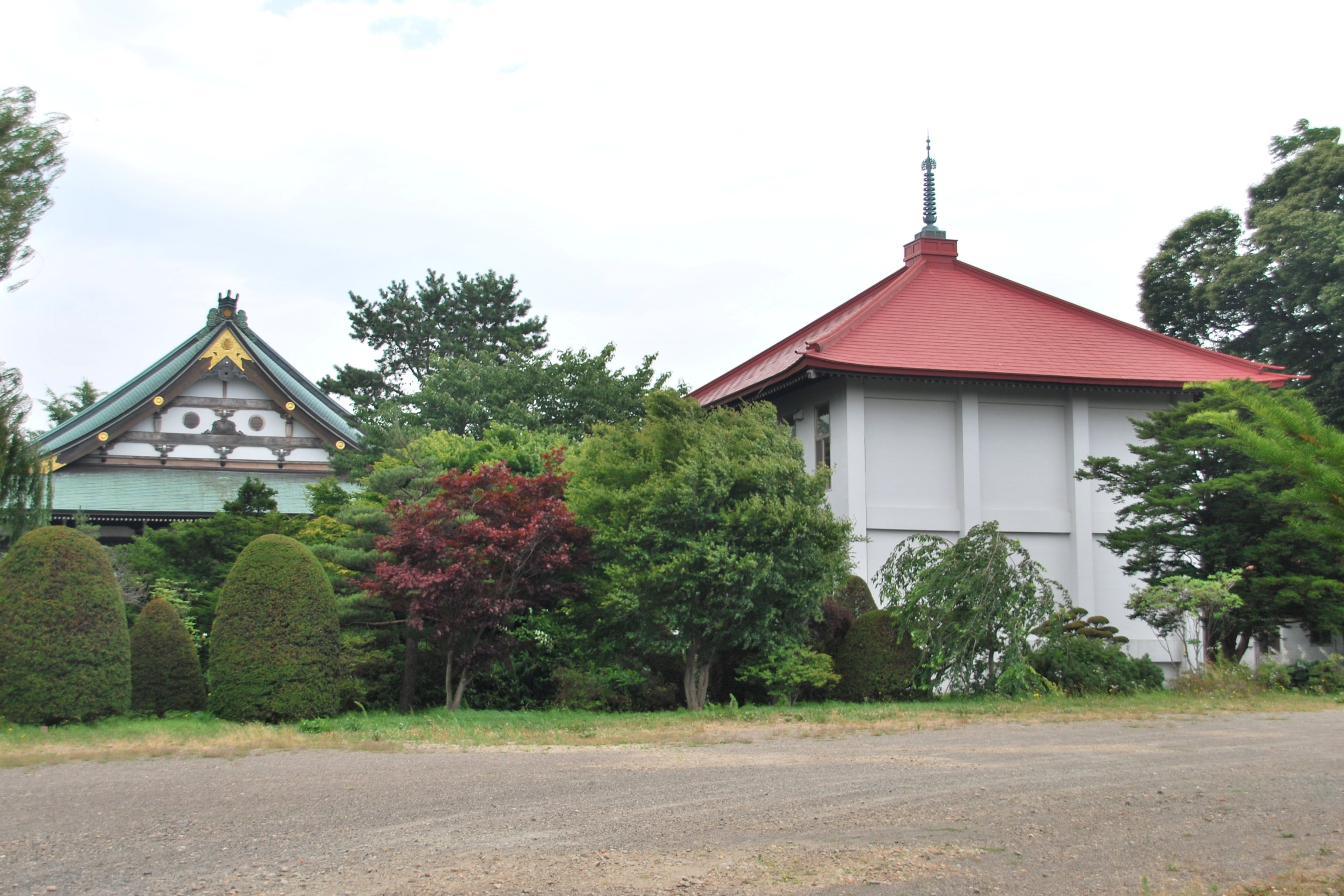 Side view of Ten'yuji Buddhist Temple in Eniwa, Hokkaido.